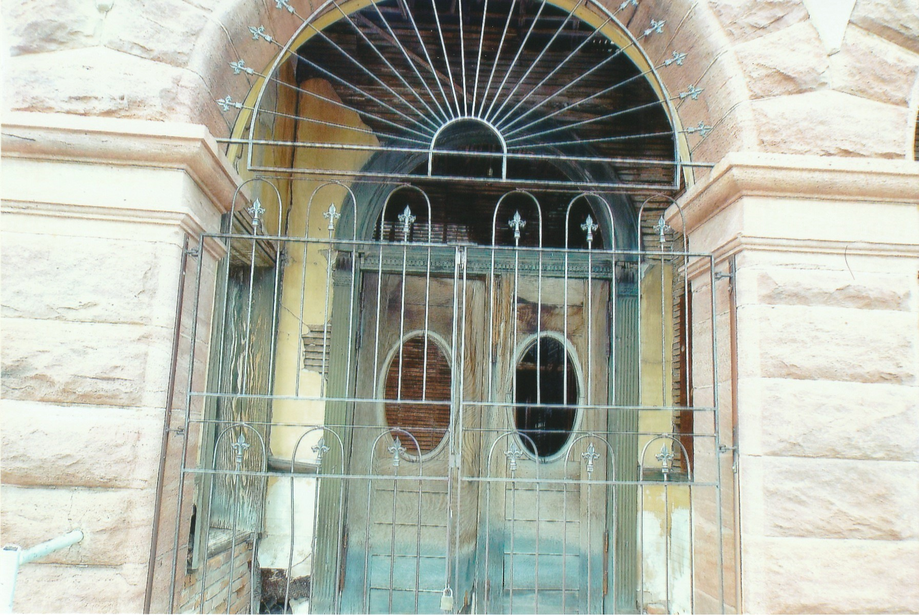 Entrance ruins the of Main and First Street. In Jerime, Az.